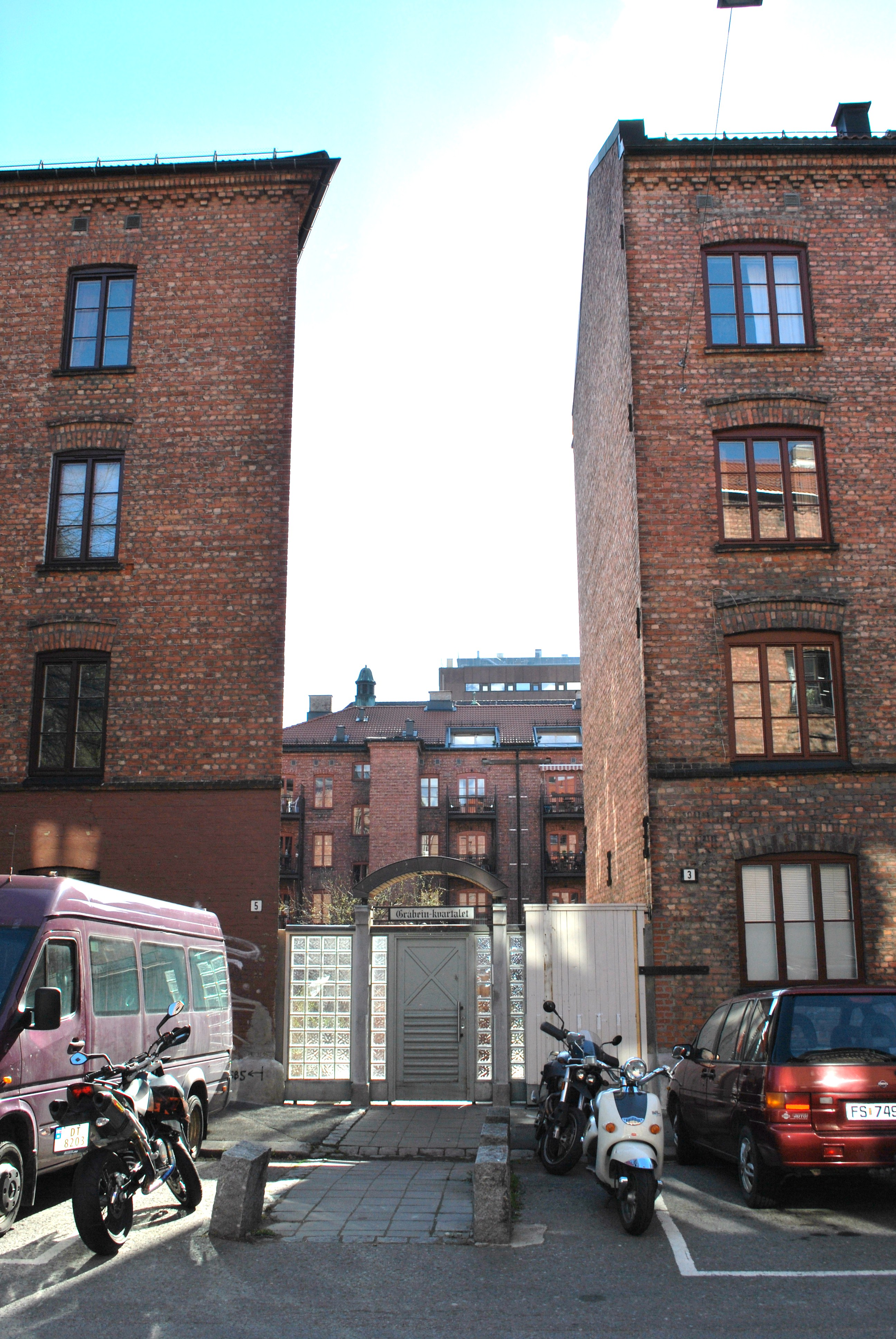 Gråbeingårdene, Tøyen , Oslo, seen from Siebkes gate (street)